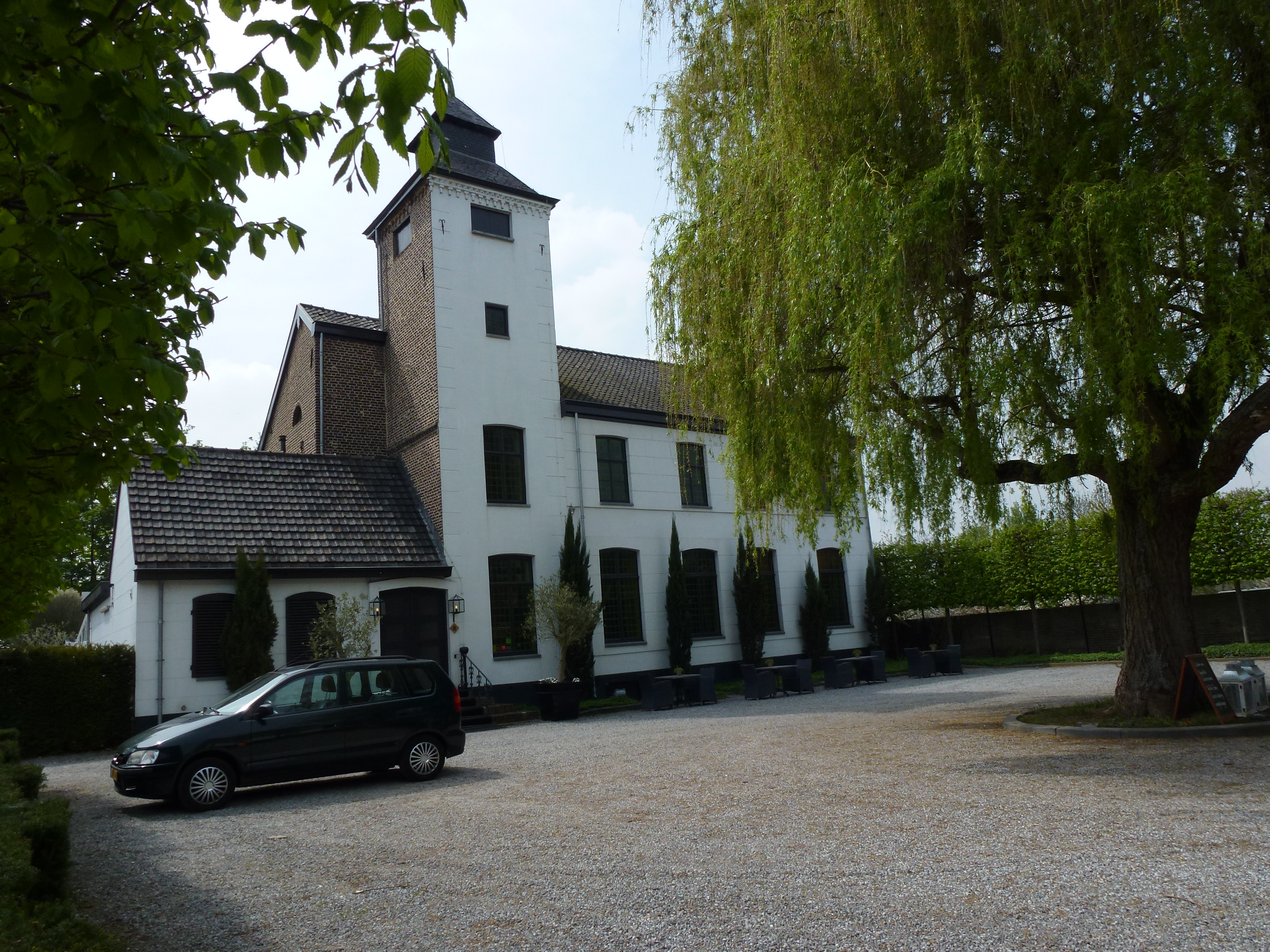 Roosteren (Echt-Susteren) kasteel Eyckholt